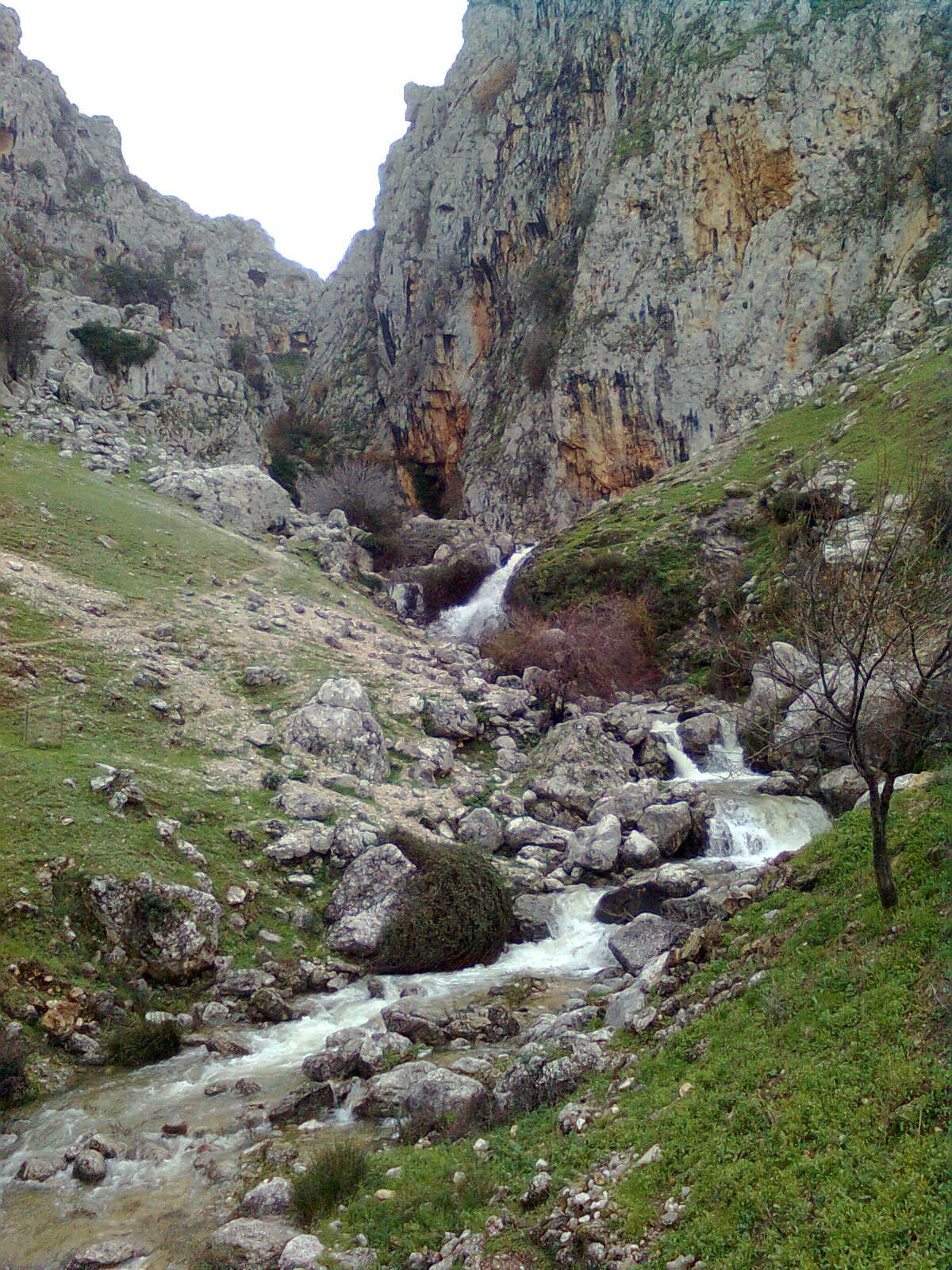 This is a photography of a Site of Community Importance in Spain with the ID: ES6130002. Natura2000 entry, EEA entry